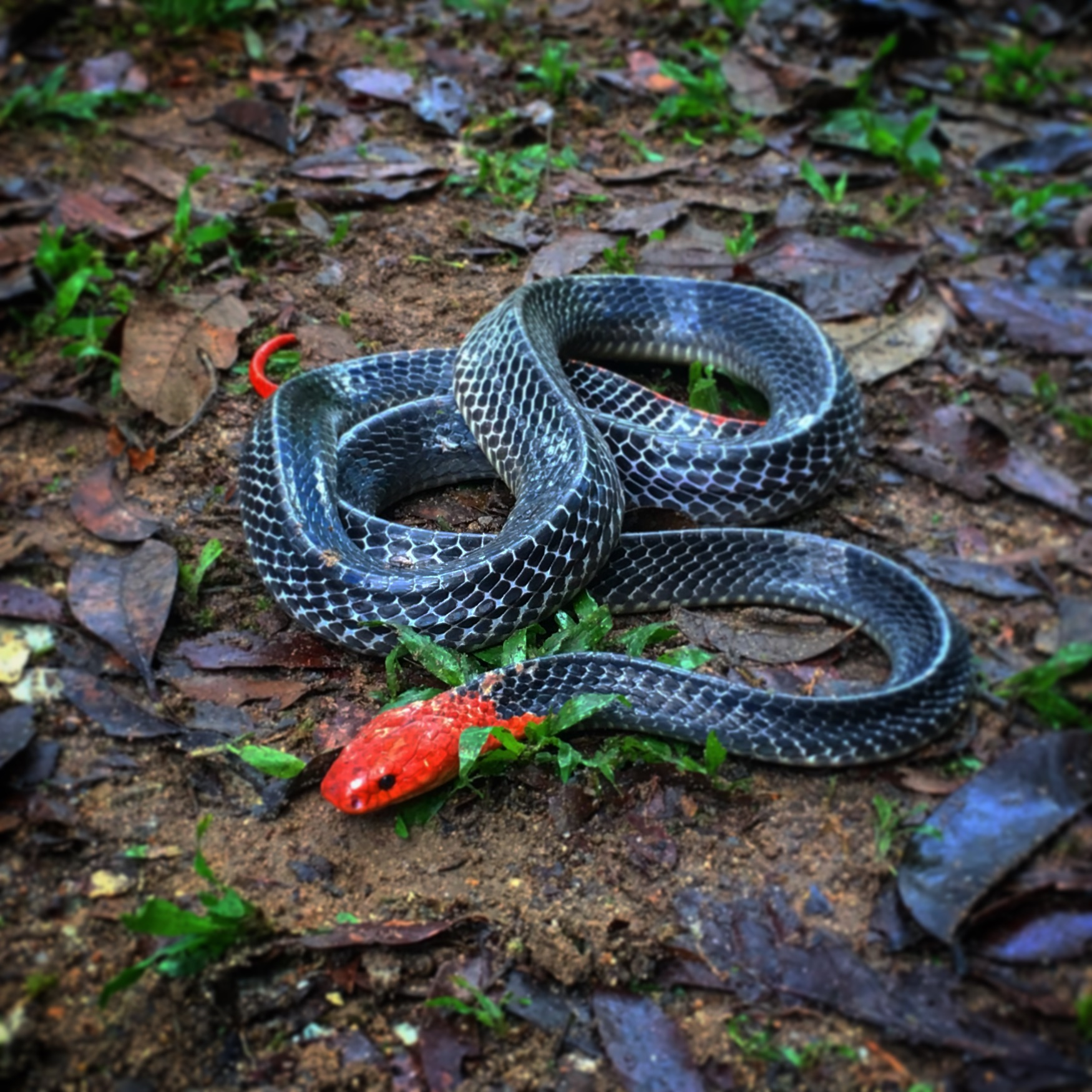 Bungarus flaviceps or Red-headed Krait found at Bukit Fraser (Fraser's Hill), Pahang, Malaysia. May 2016.